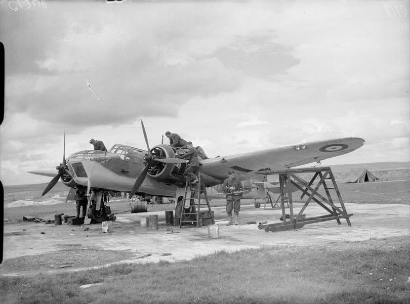 Royal Air Force- France, 1939-1940. Bristol Blenheim Mark IV, N6227 'XD-M', of No. 139 Squadron RAF, undergoes an engine overhaul at Plivot. Note the armourer (foreground) who has just removed the forward-firing .303 machine gun from its mounting in the port wing for examination.